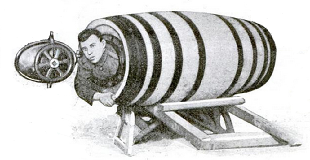 Charles Stephens prior to his Niagara Falls plunge